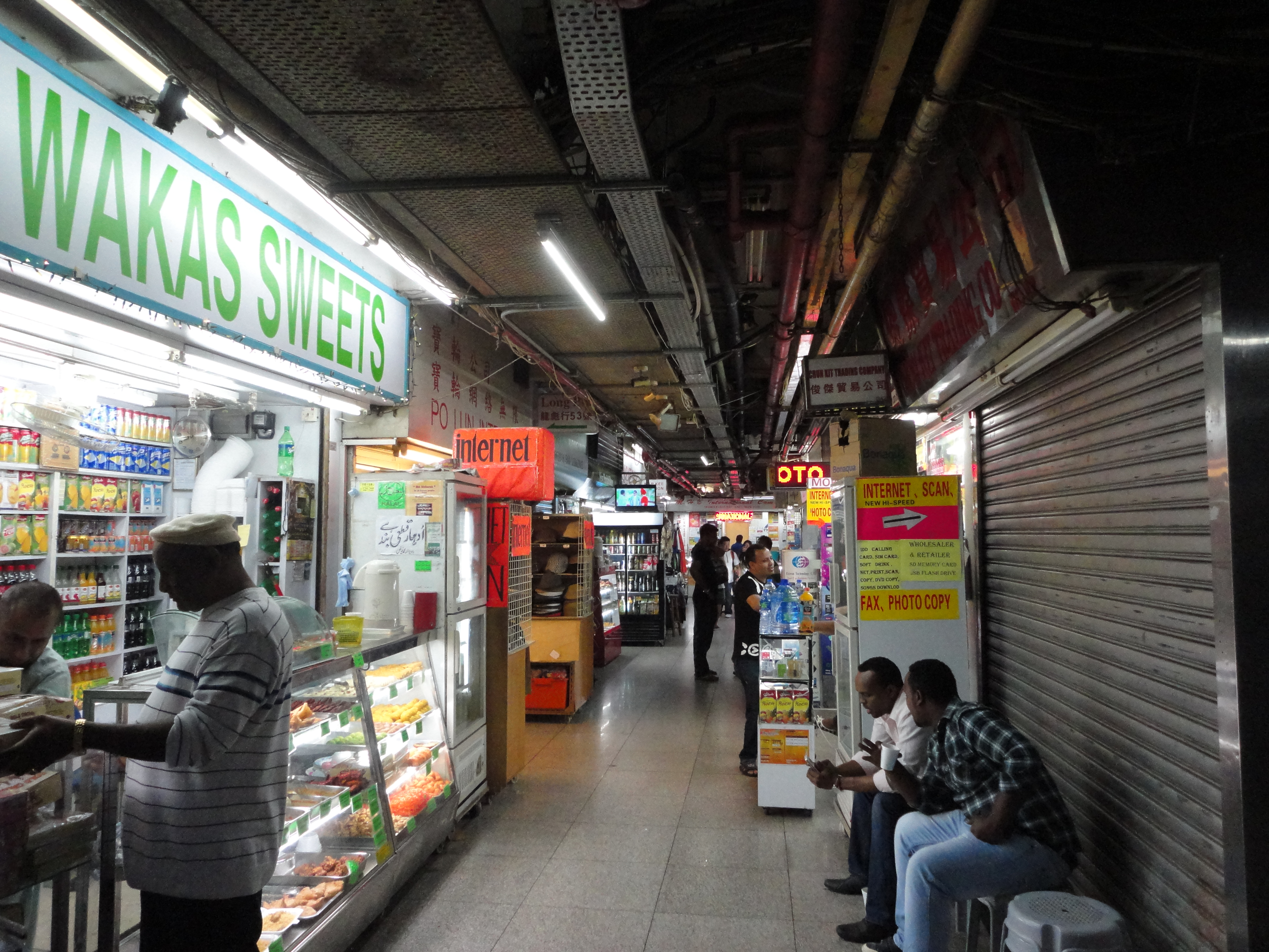 Shops on ground floor of Chungking Mansions